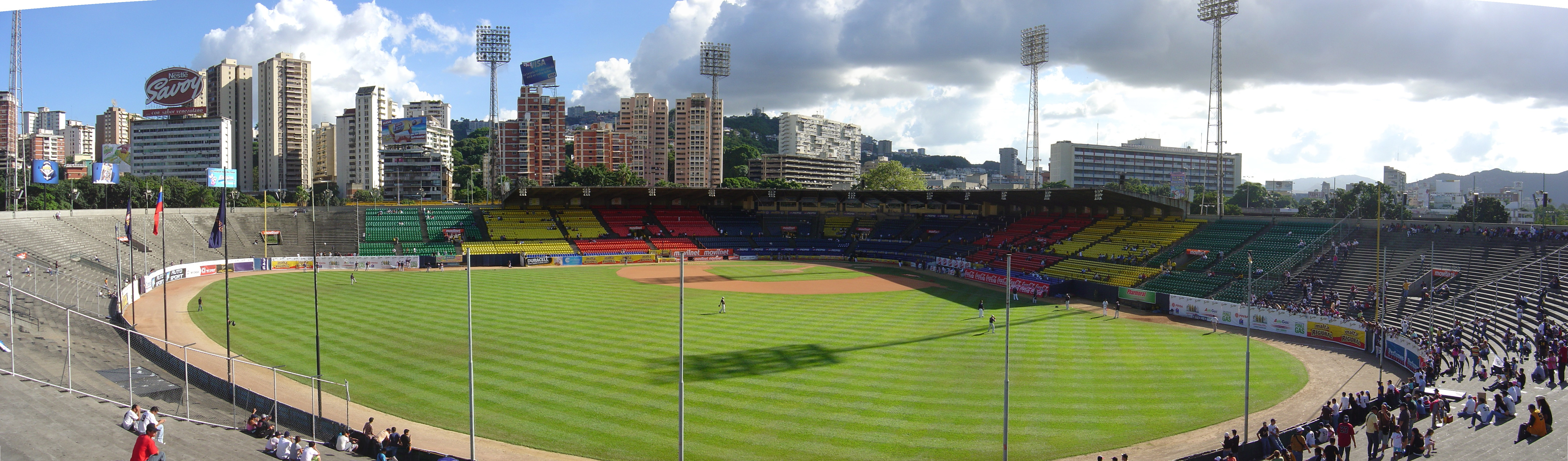 Baseball Stadium, Caracas - Venezuela